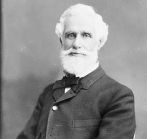 Hon. Alexander Vidal, (Senator) b. Aug. 4, 1819 - d. Nov. 19, 1906